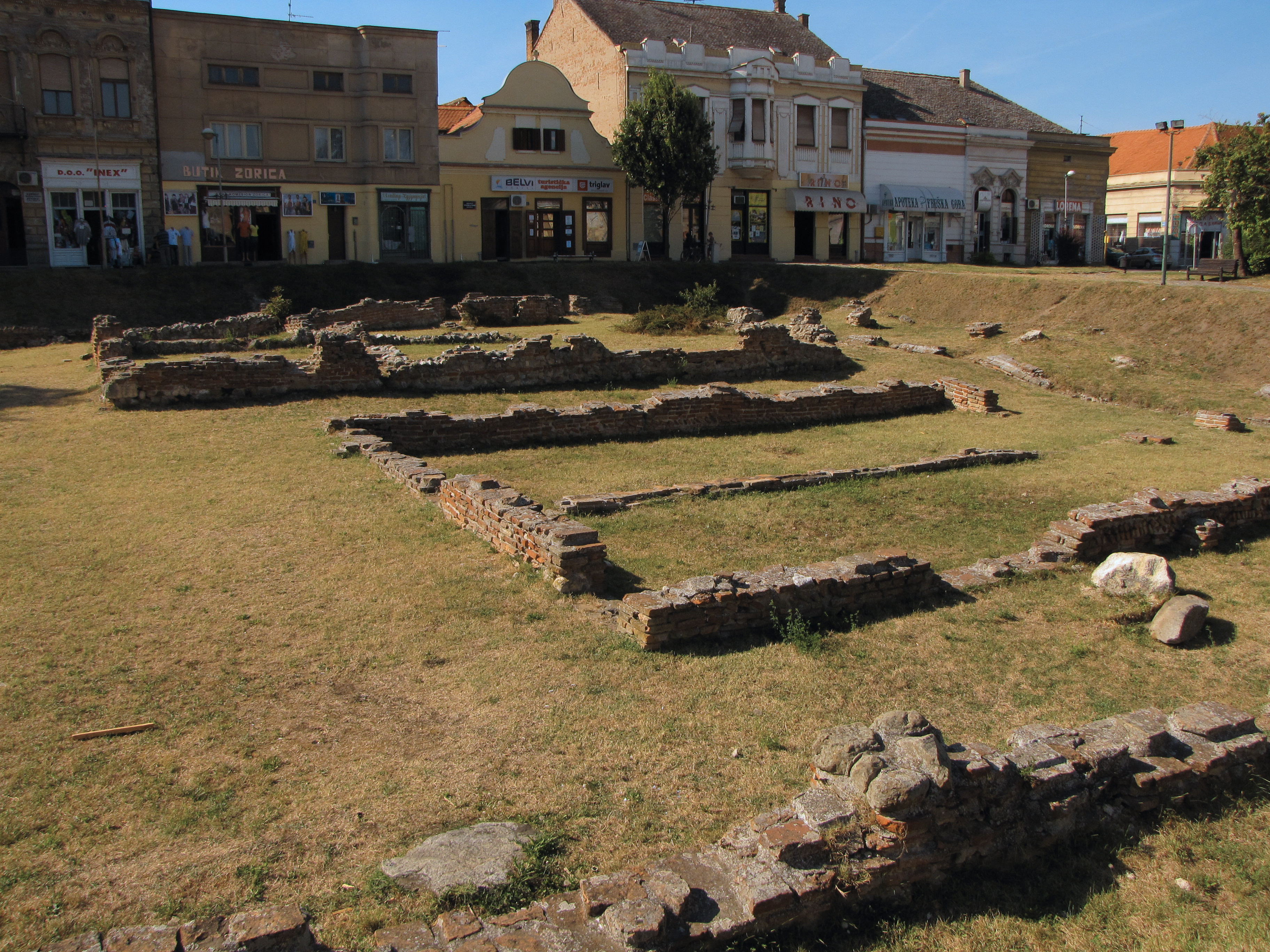 AWIB-ISAW: Roman Sirmium (I) Fired-brick ruins at the ancient Roman city of Sirmium, located in modern-day Serbia. photographed place: Sirmium (Sremska Mitrovica ) [1] Published by the Institute for the Study of the Ancient World as part of the Ancient World Image Bank (AWIB). Further information: [2].